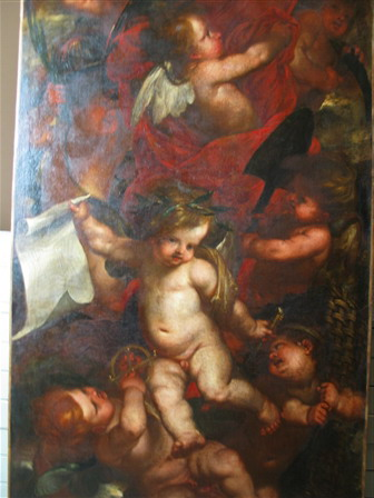 Painting by Peter Strudel located in National Museum of Serbia